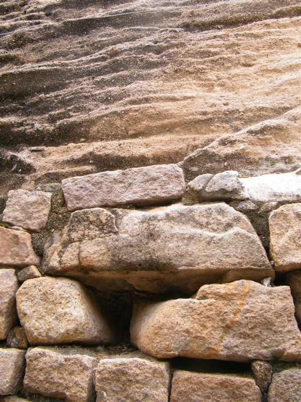 Stones in the ancient city of Dahao, China